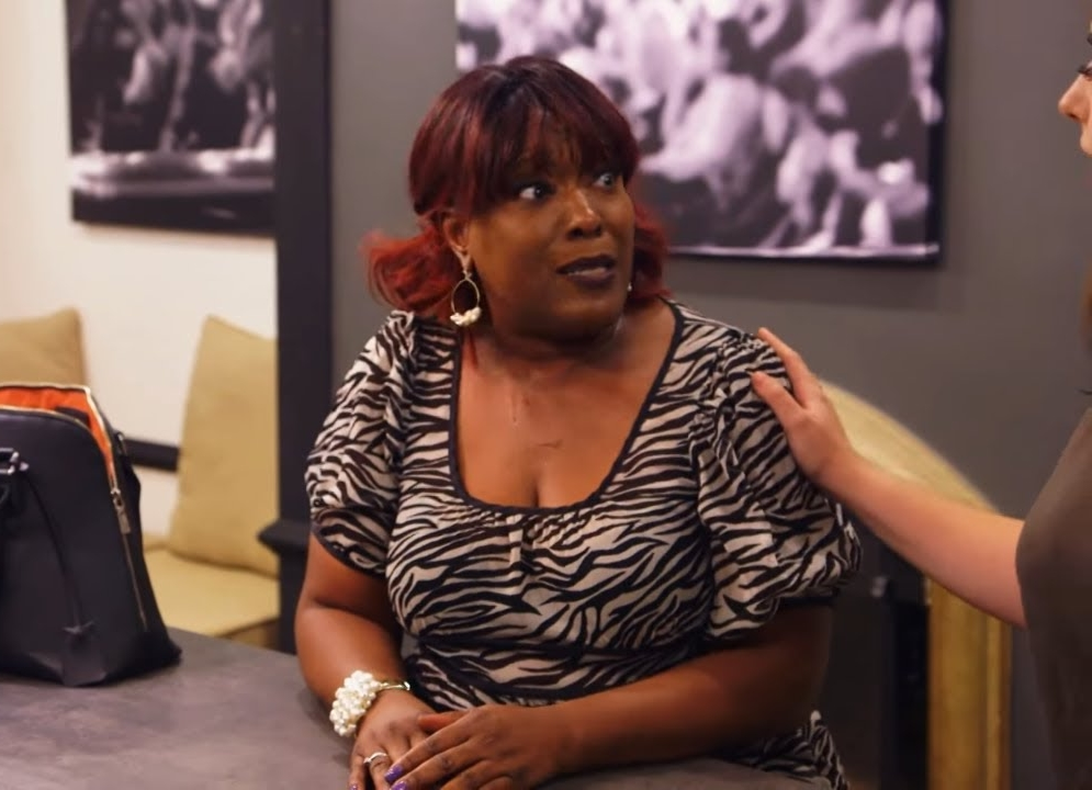 When an argument breaks out between Tondy Gallant and D'atra Hicks, D'atra must rely on a special technique she learned in anger